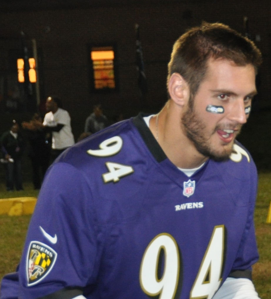 Baltimore Ravens linebacker, John Simon, at a charity event in 2013.